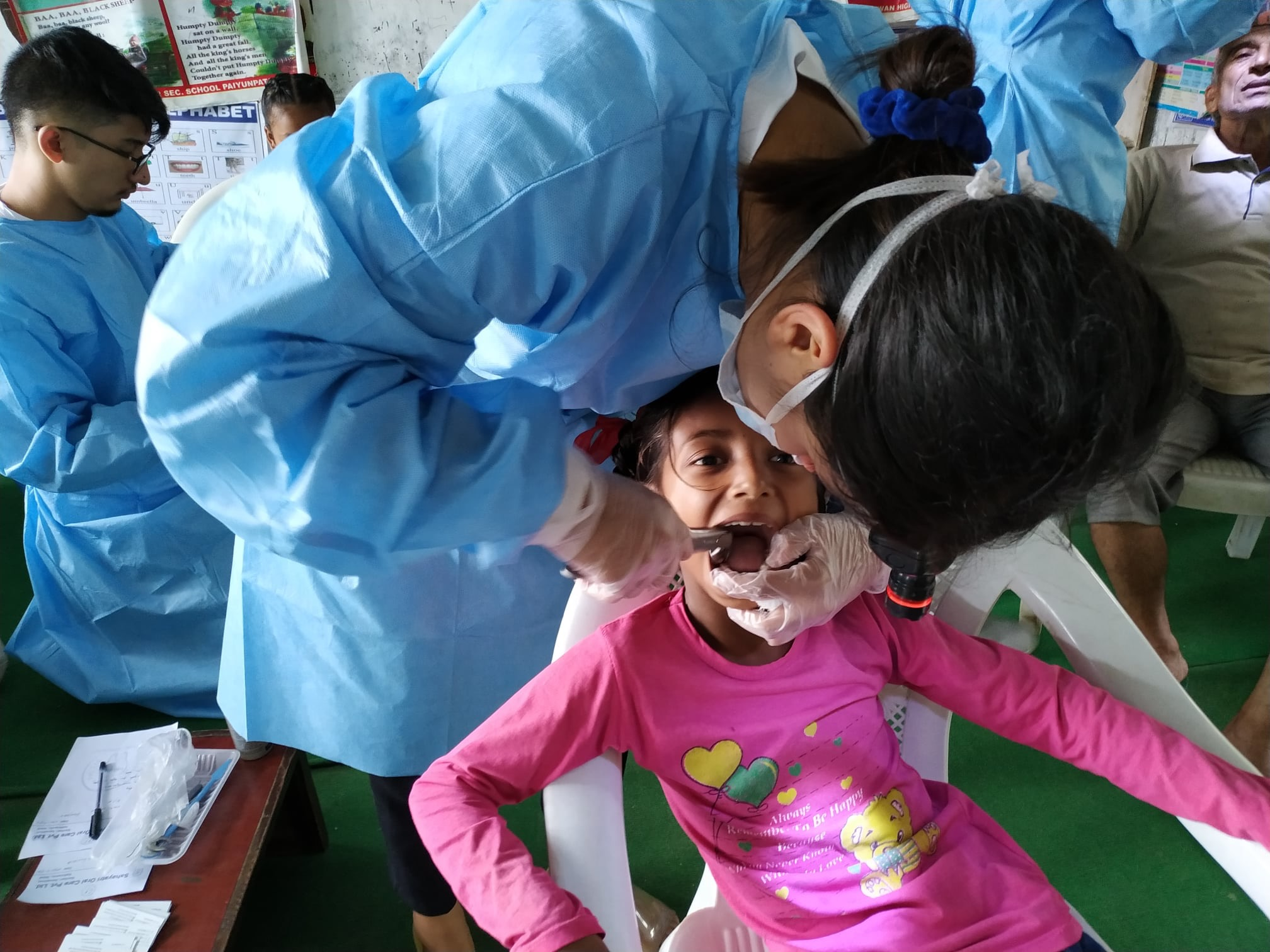 picture was taken in dental camp